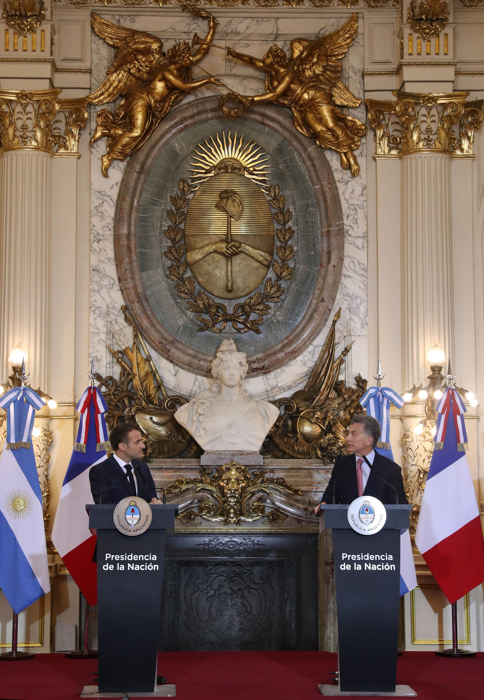 Mauricio Macri and Emmanuel Macron at Casa Rosada in November 2018.